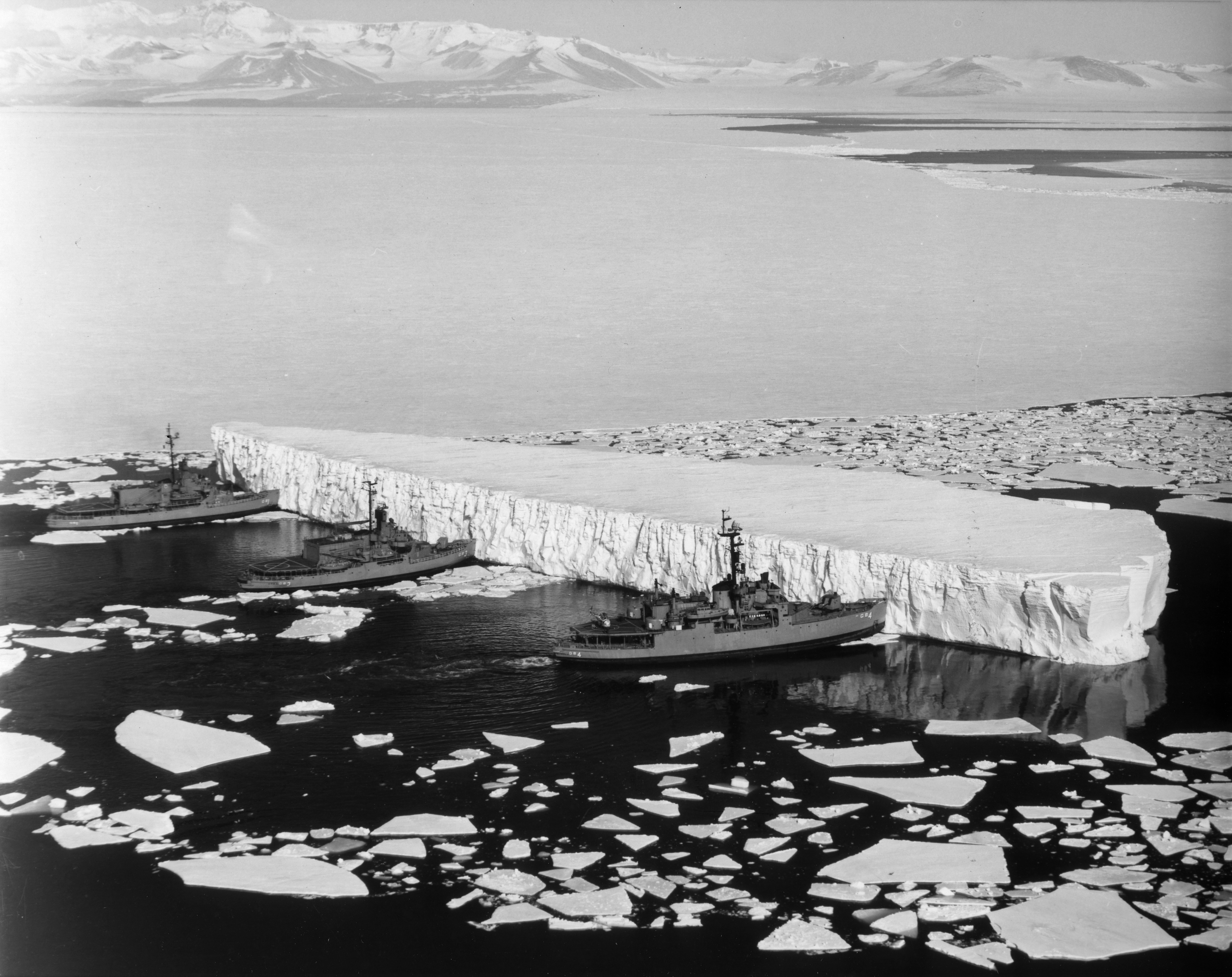 Burton Island, Atka, and Glacier push together to move a huge iceberg from the channel to McMurdo Station, Antarctica, 29 December 1965.